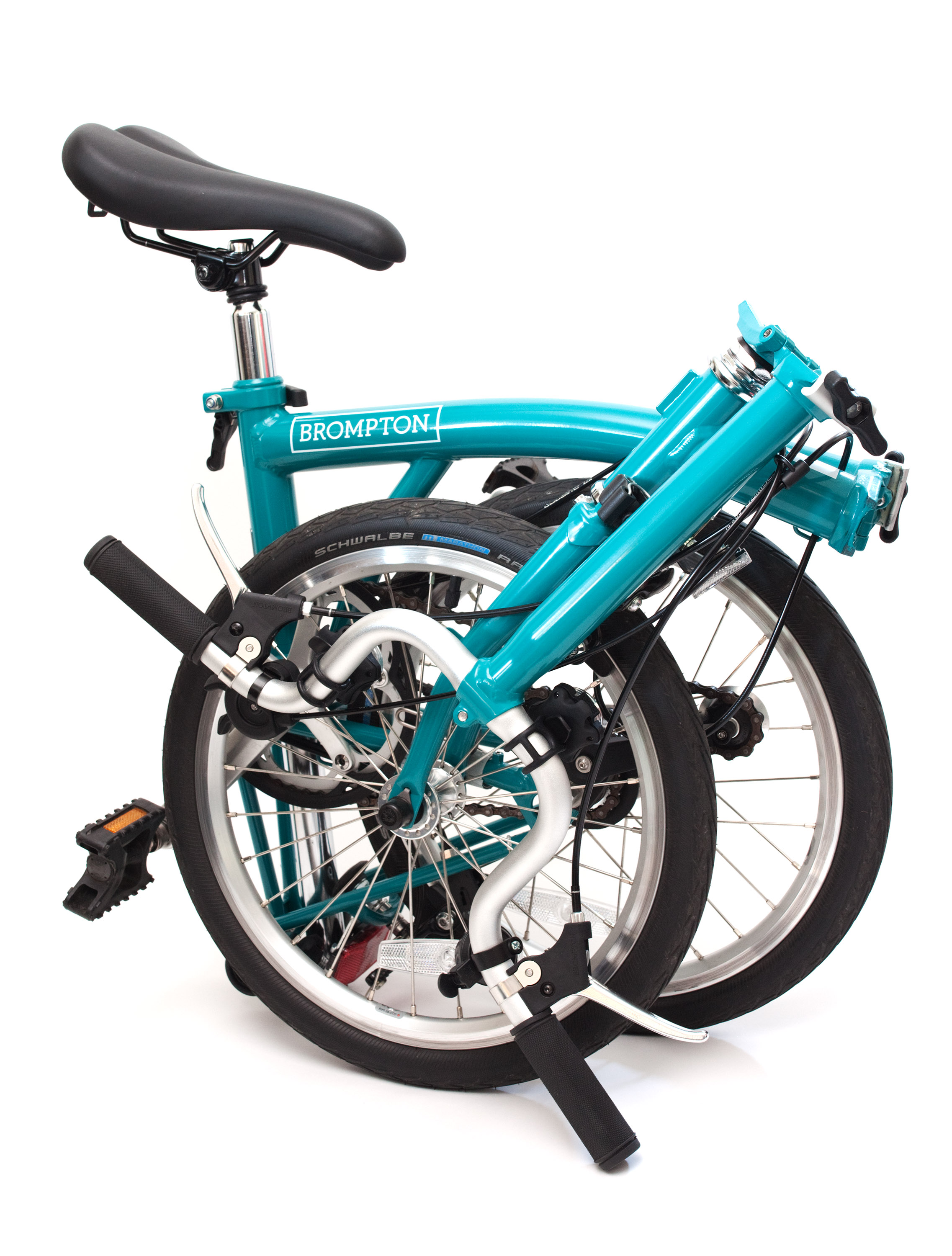 A Brompton B75 folding bicycle, folded.